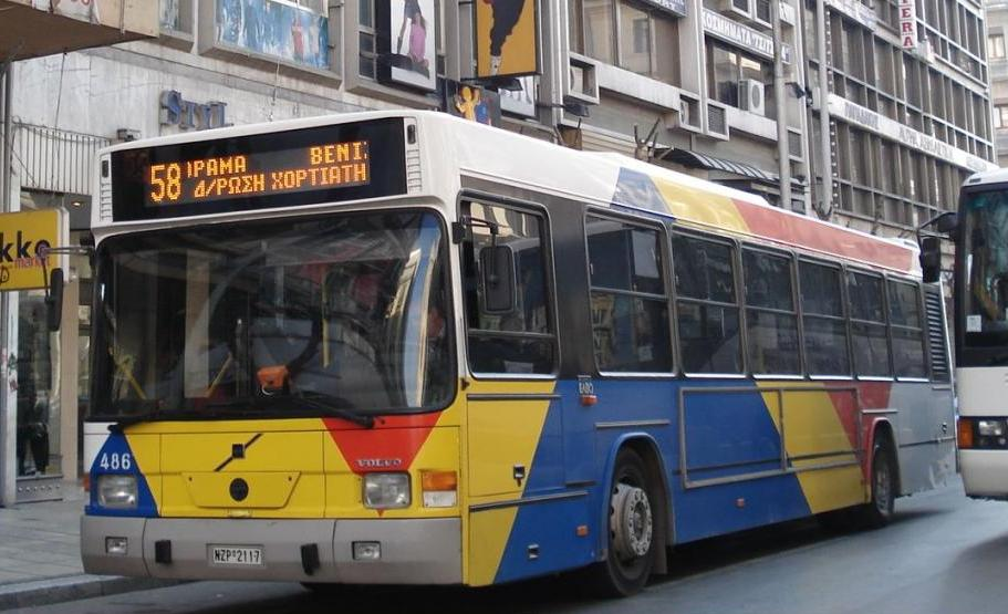 Volvo B7L bus. Thessaloniki, Greece.